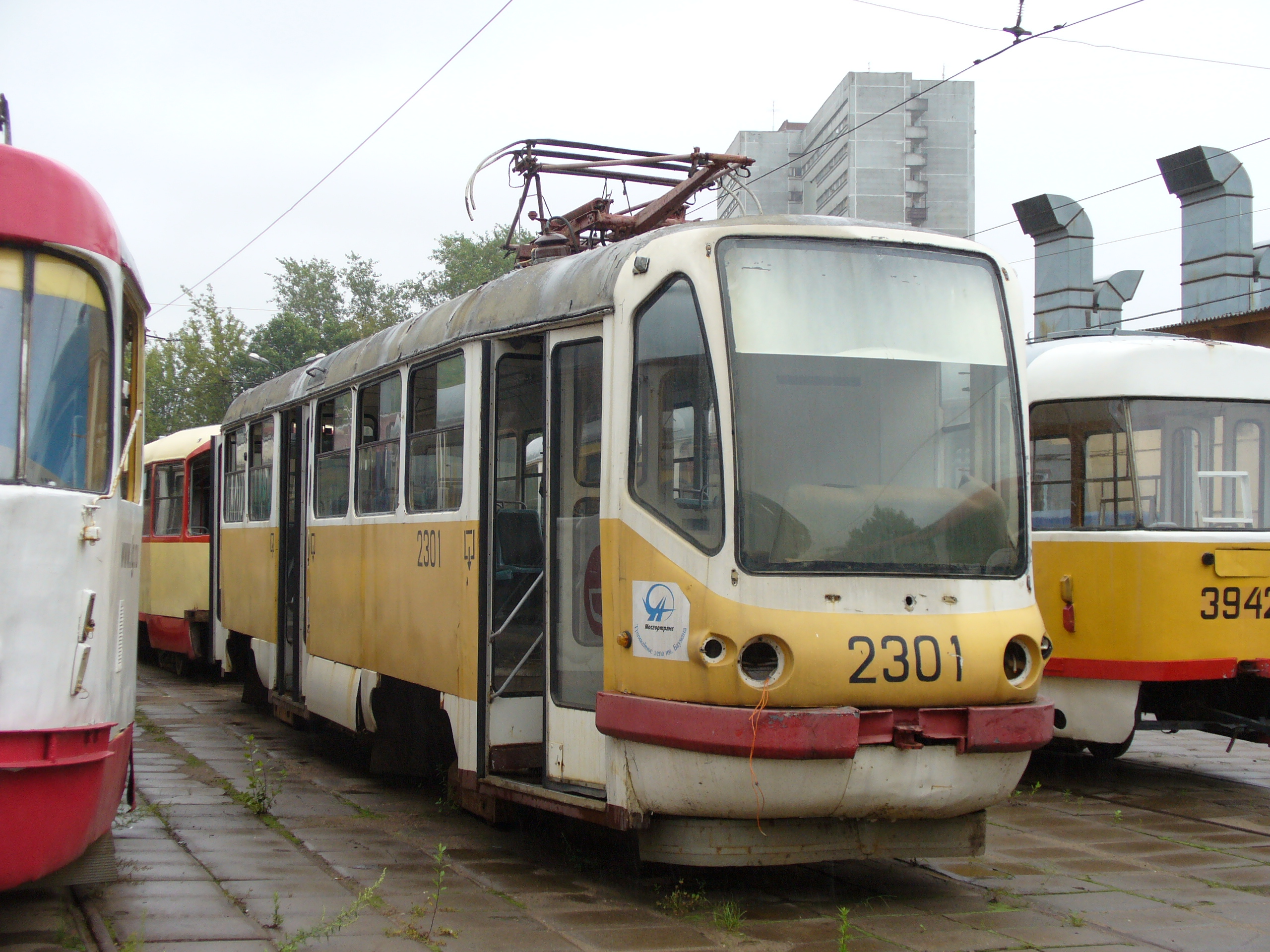 Rebuild to 3421, operated.